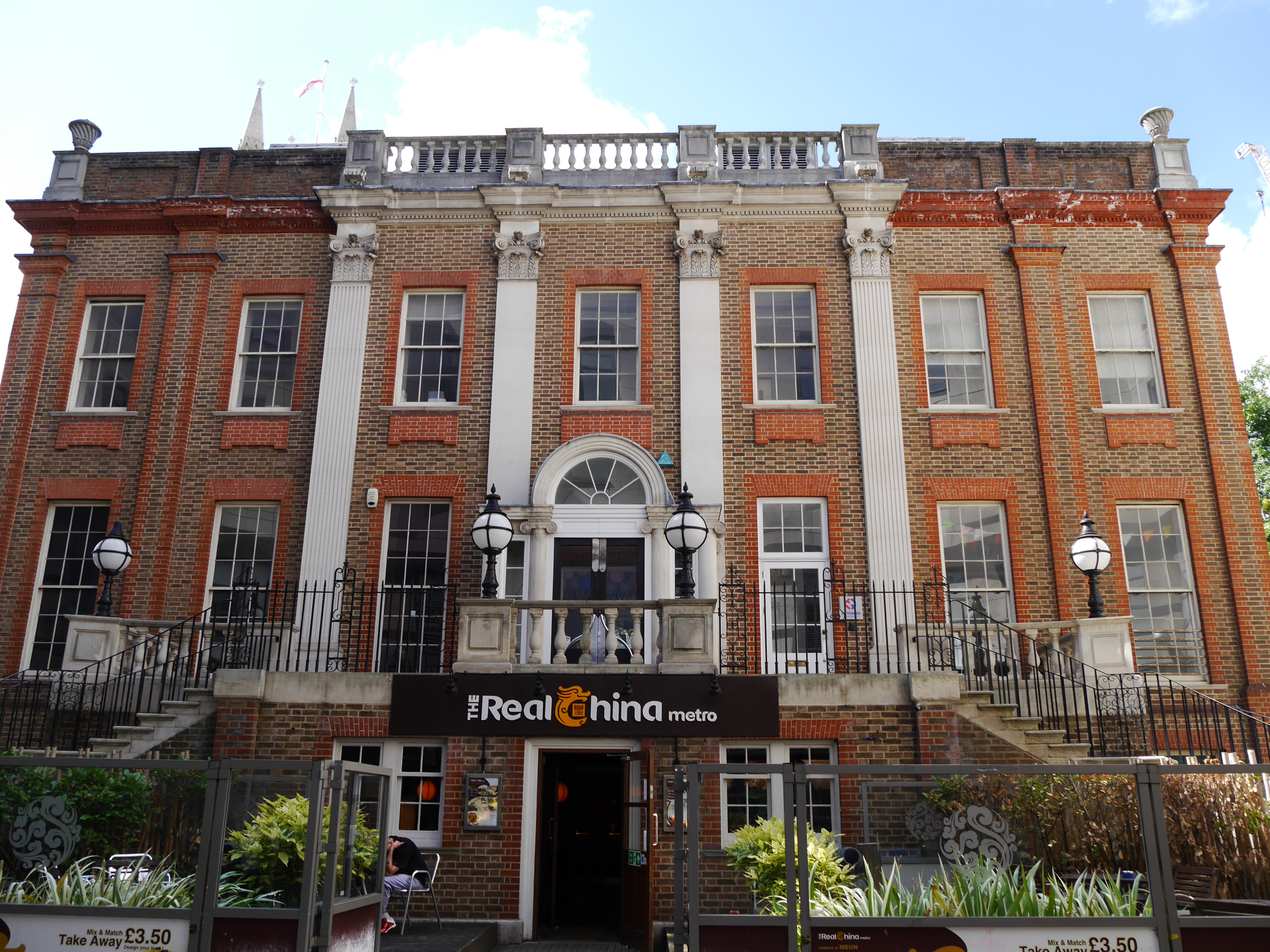 Bradmore House, August 2014